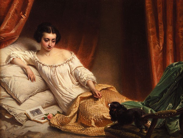 Friendly visitors